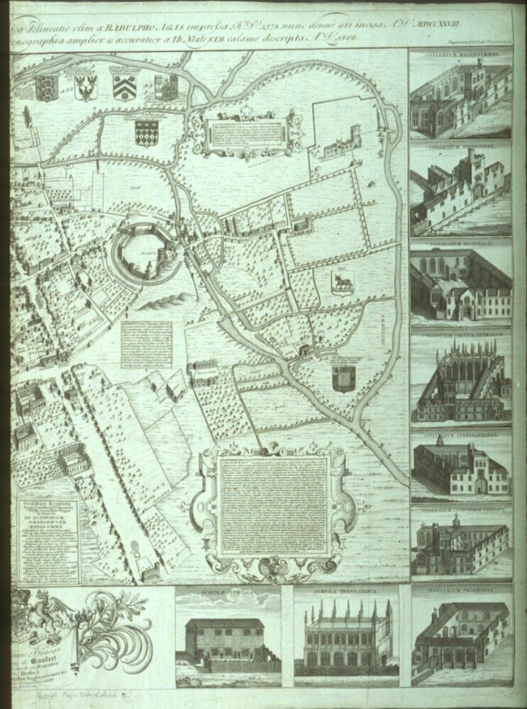 Agas' map of Oxford, 1578, showing 9 post-Bereblock engravings